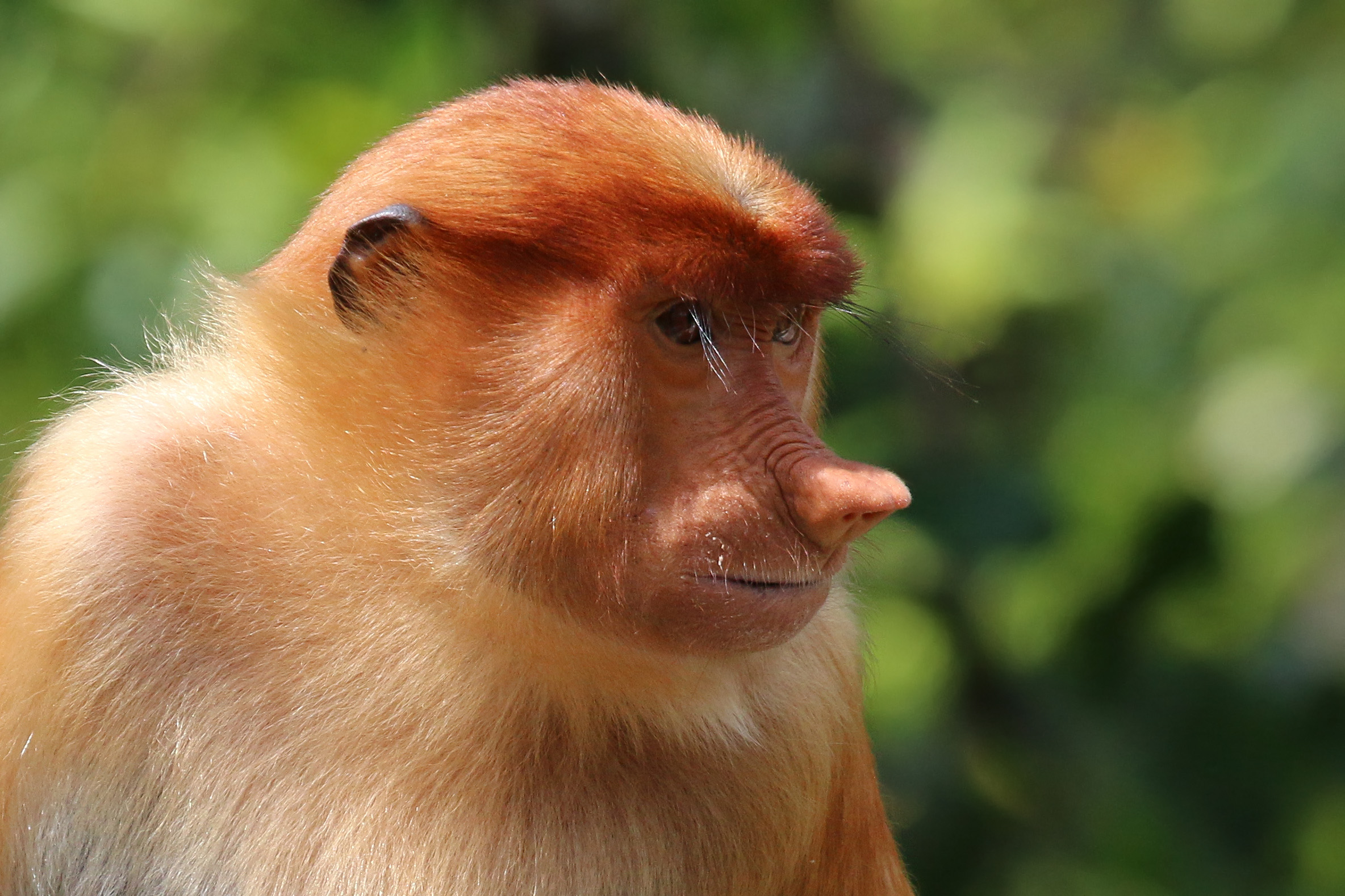 Proboscis monkey (Nasalis larvatus) female, Labuk Bay, Sabah, Borneo, Malaysia